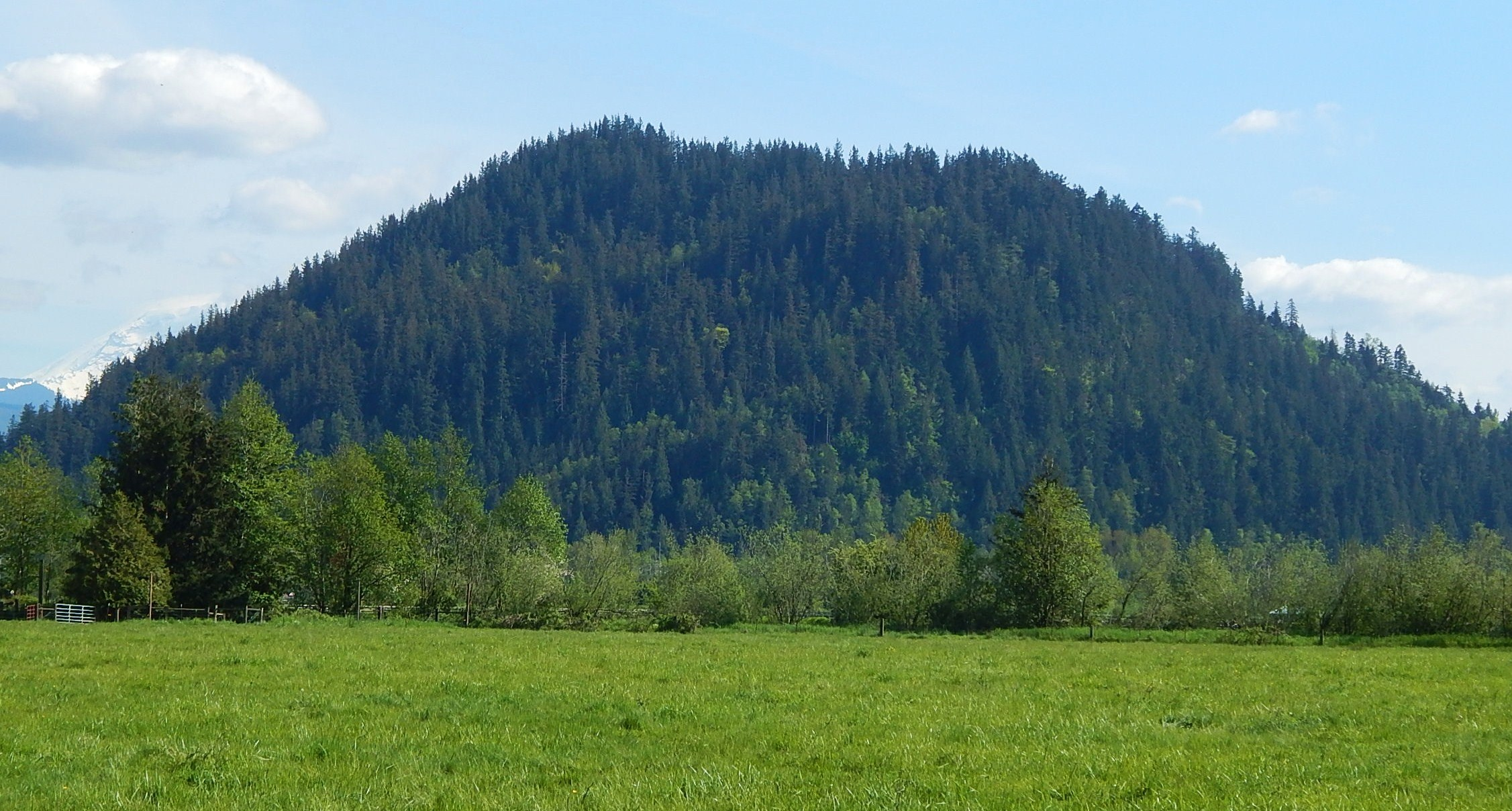 Pinnacle Peak is south of Enumclaw, WA Elevation 1,801' Seen from SE 456th St